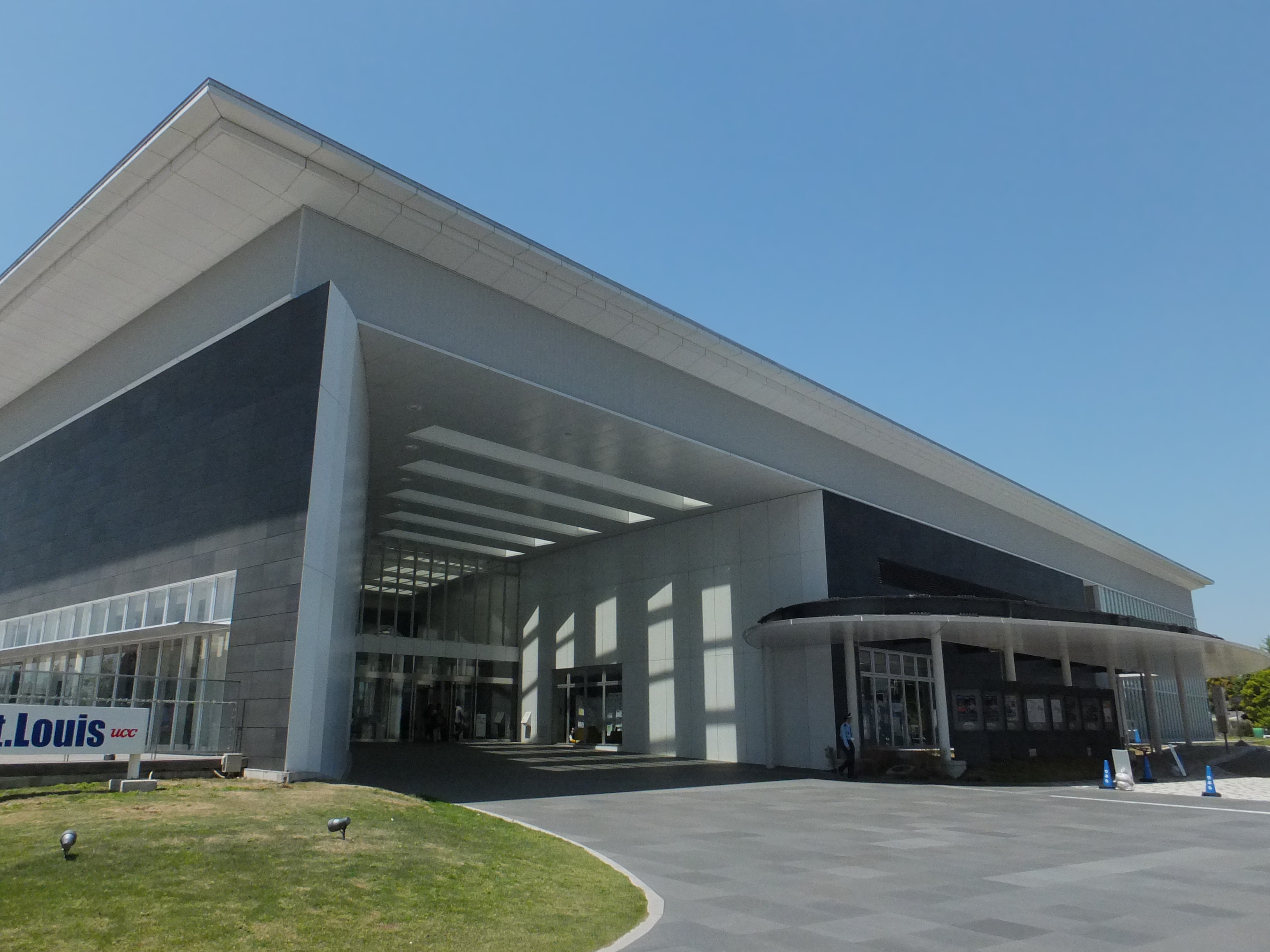 Okazaki City Library and Community Plaza (岡崎市図書館交流プラザ), located at 4-71 Koseidori-nishi, Okazaki, Aichi, Japan